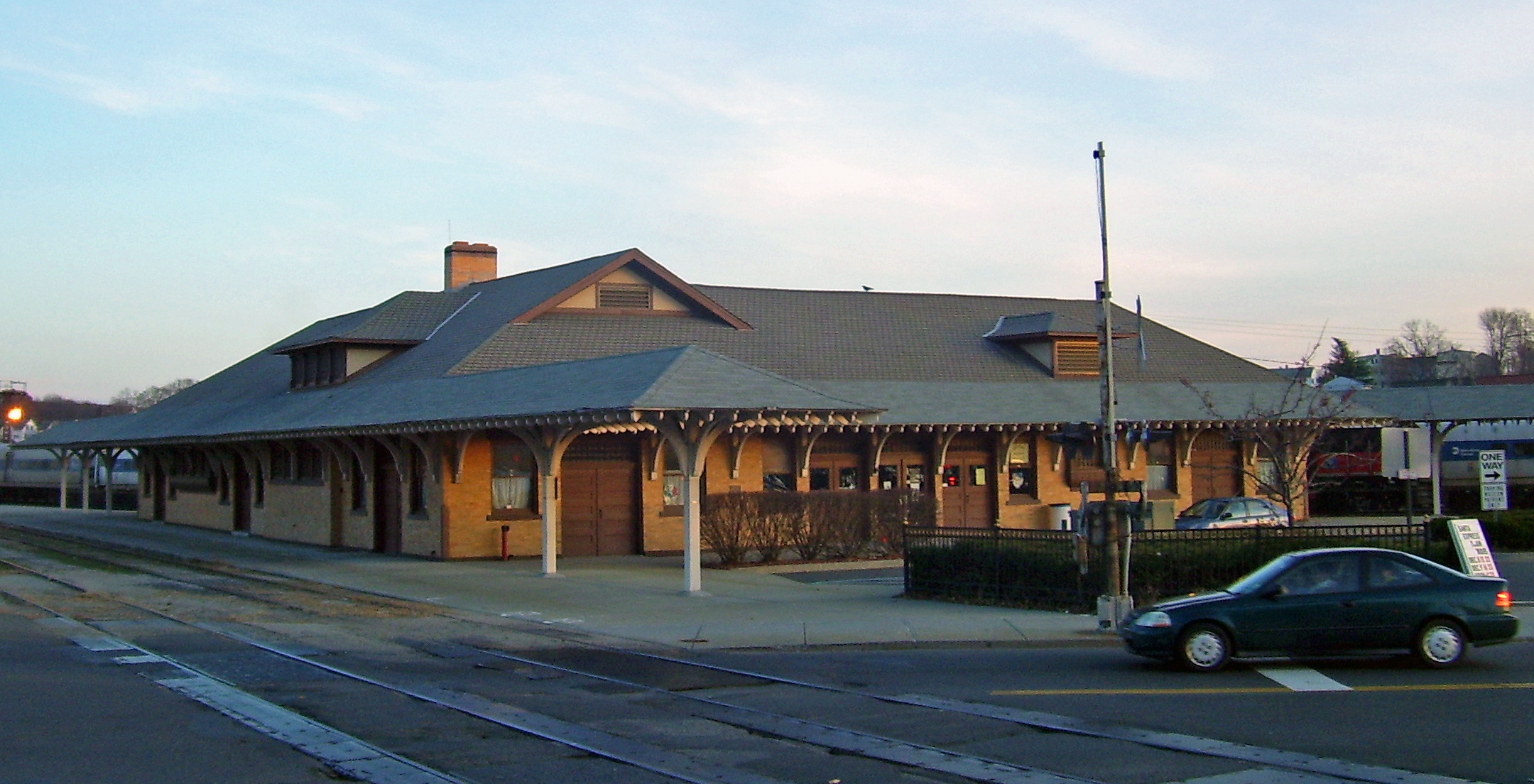 Danbury Railroad Museum, formerly the city's Union Station